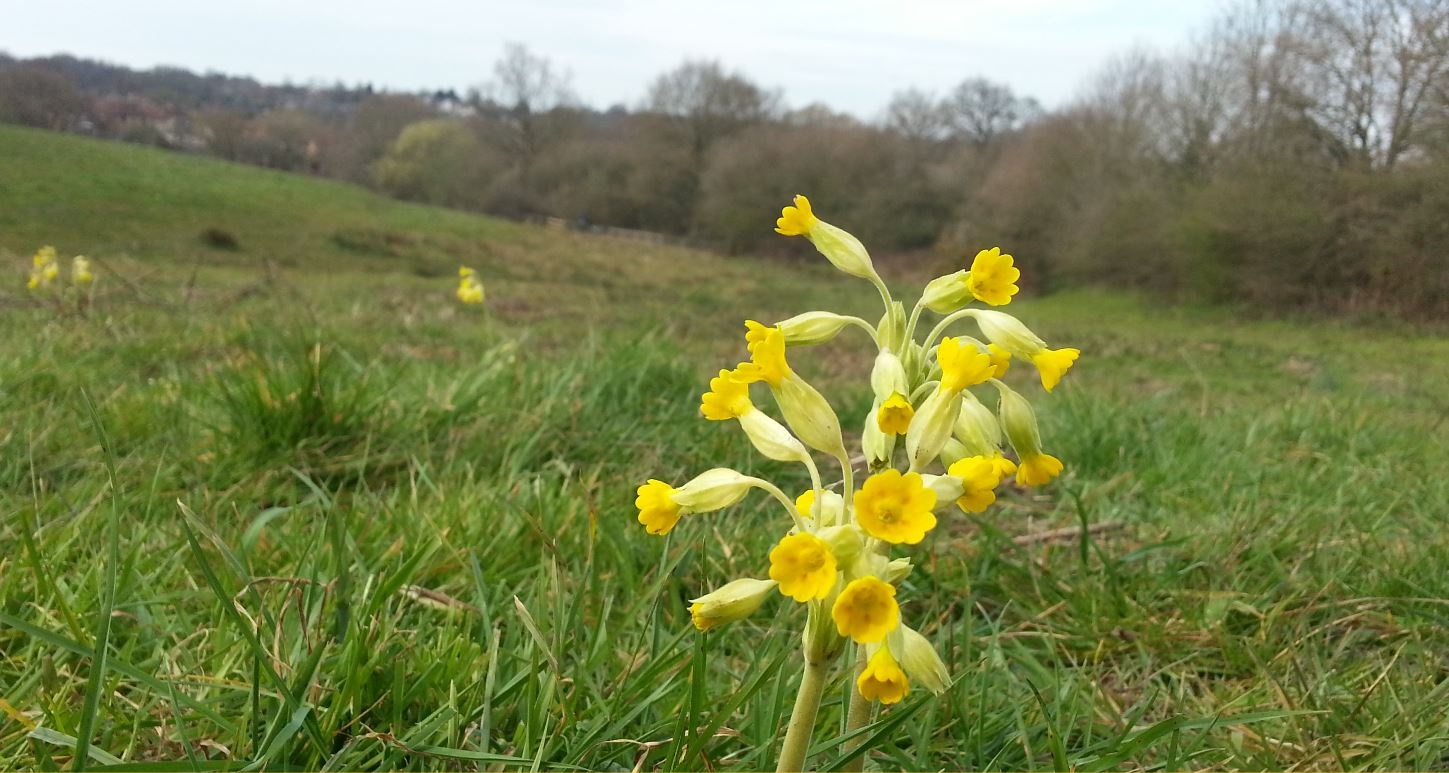 Picture of Cowslip Wild Flower - Butchers Field - Mill Meadows, Billericay, Essex - 11th April 2016